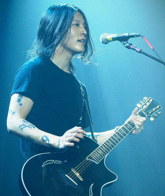 Miyavi performing at Irving Plaza in New York, United States, on October 31, 2011. Photo by May S. Young.